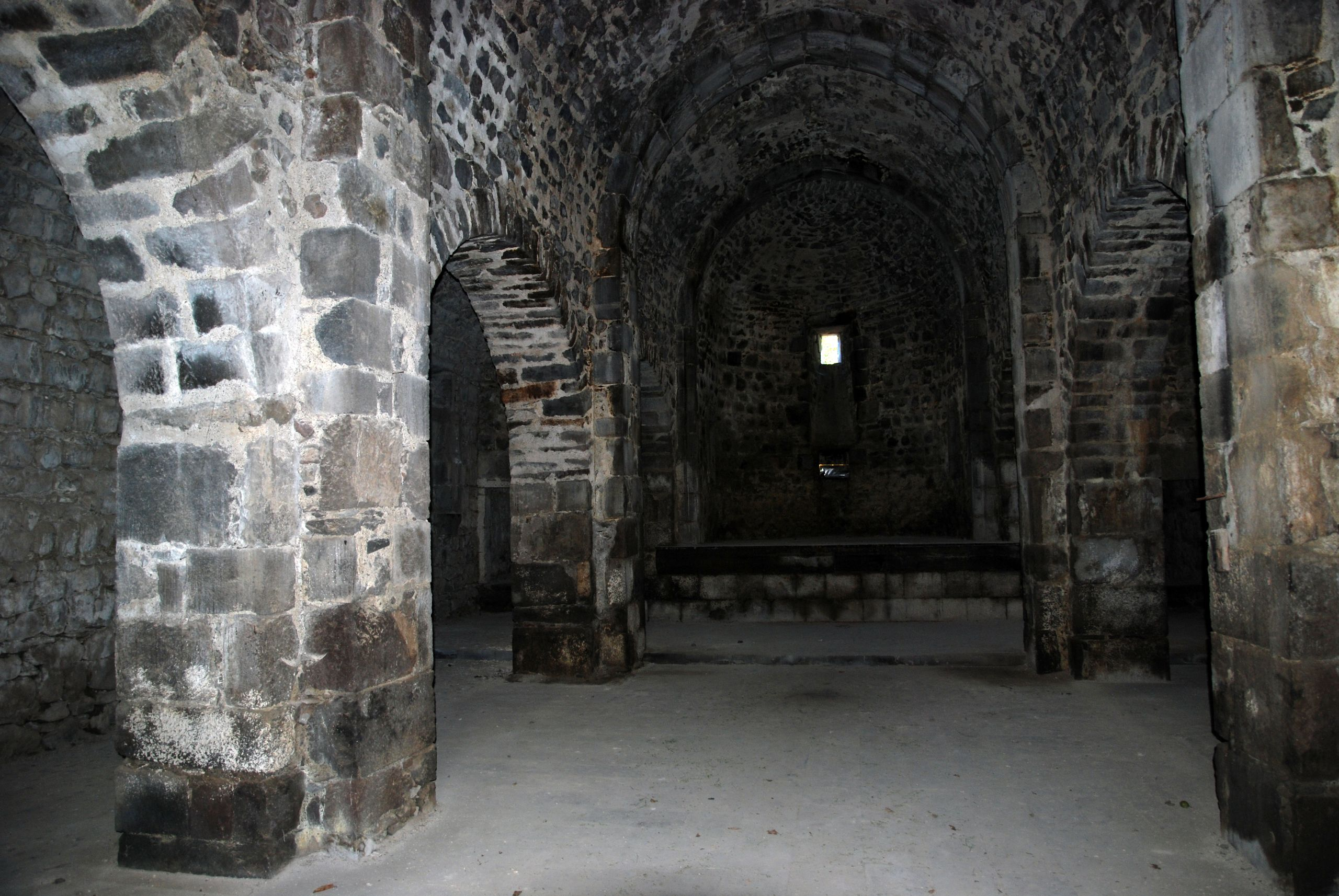 Yeghegis, Surp Astvatsatsin